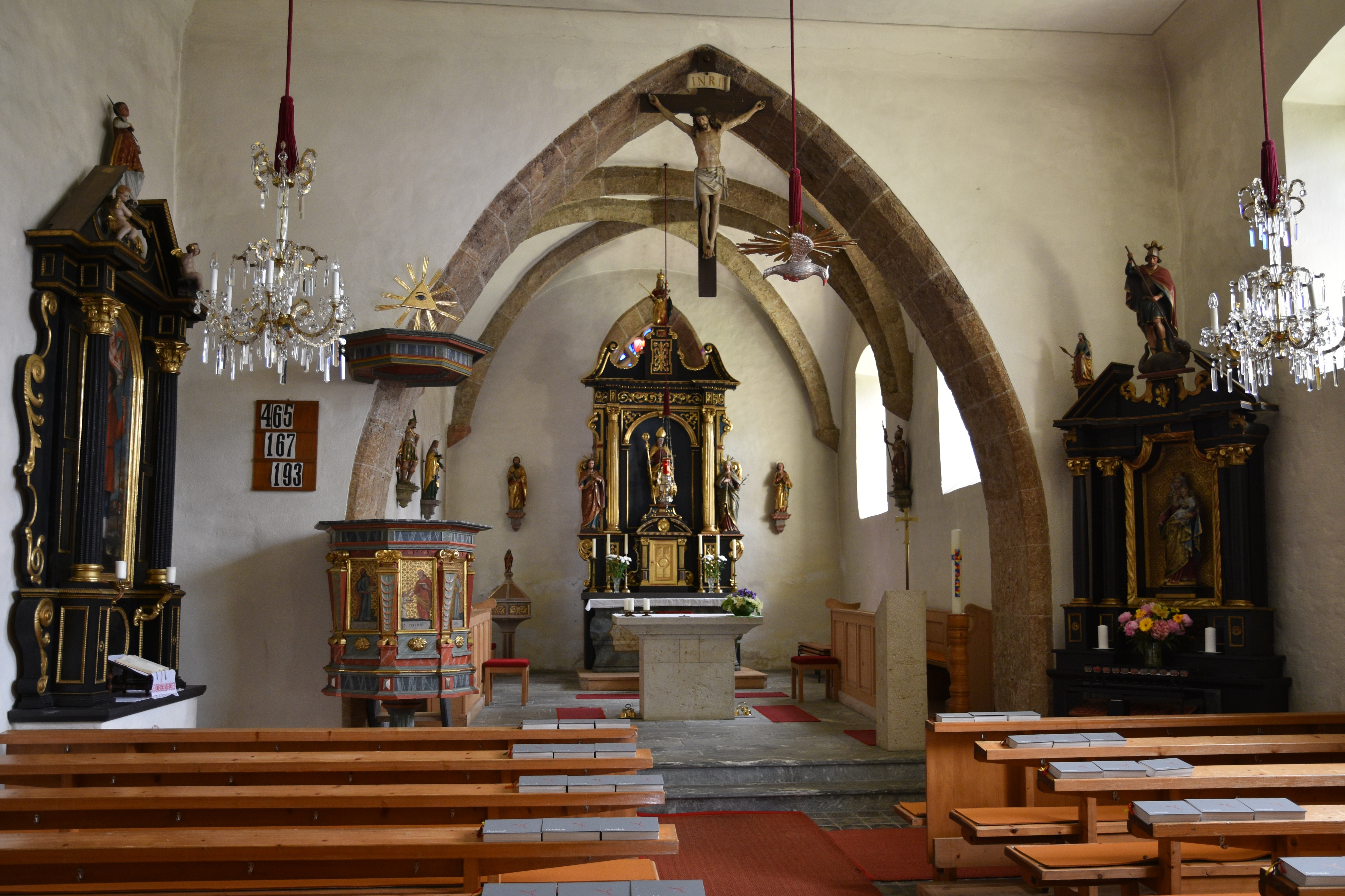 Church Pfarrkirche Schönberg-Lachtal Interior